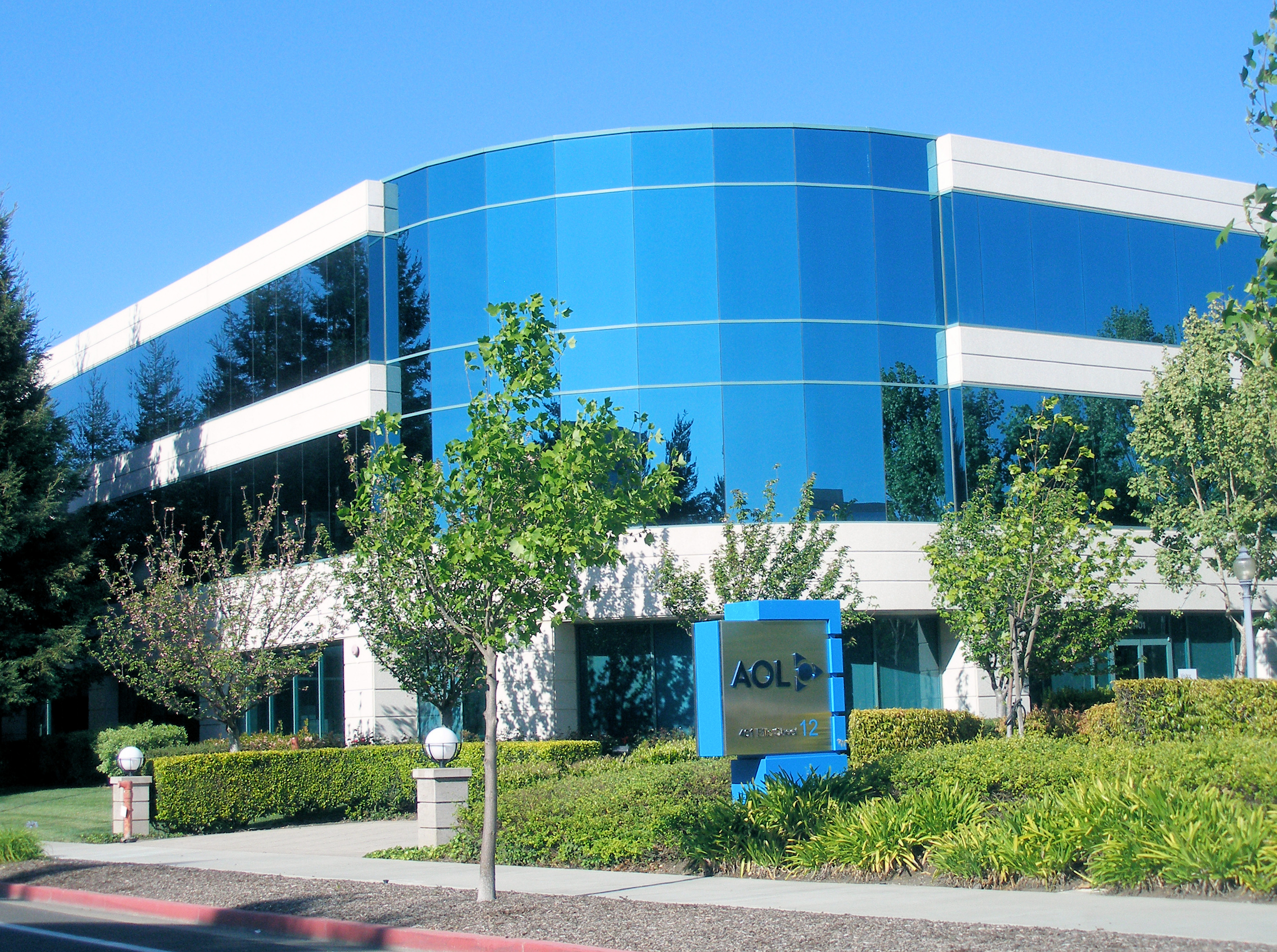 AOL's Silicon Valley office in Mountain View.